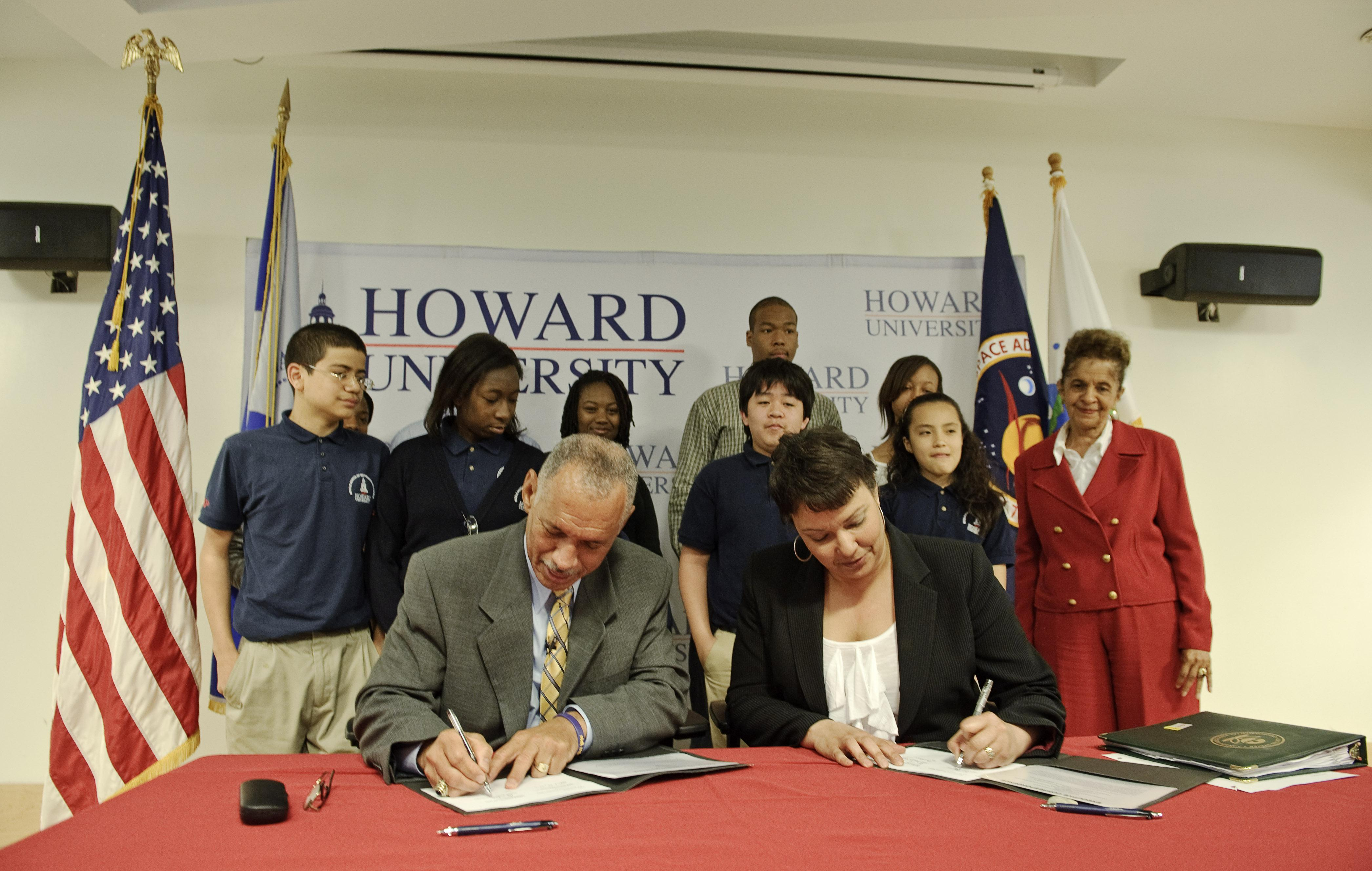 NASA Administrator Charles Bolden and U.S. Environmental Protection Agency Administrator Lisa P. Jackson signed a Memorandum of Agreement today to promote and continue collaboration between the two agencies in environmental and Earth sciences and applications. The signing ceremony took place at the Howard University Middle School of Mathematics and Science (MS)² on the campus of Howard University in Washington. Following the ceremony, both administrators met with students to discuss the importance of science and engineering education.